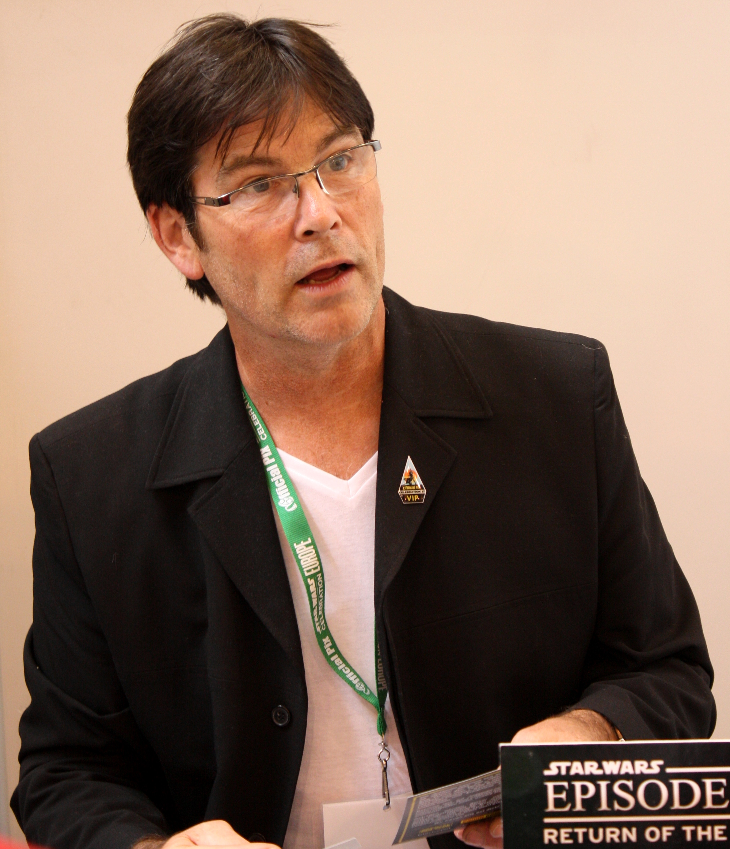 Sean Crawford at Star Wars Celebration II in Essen, Germany.